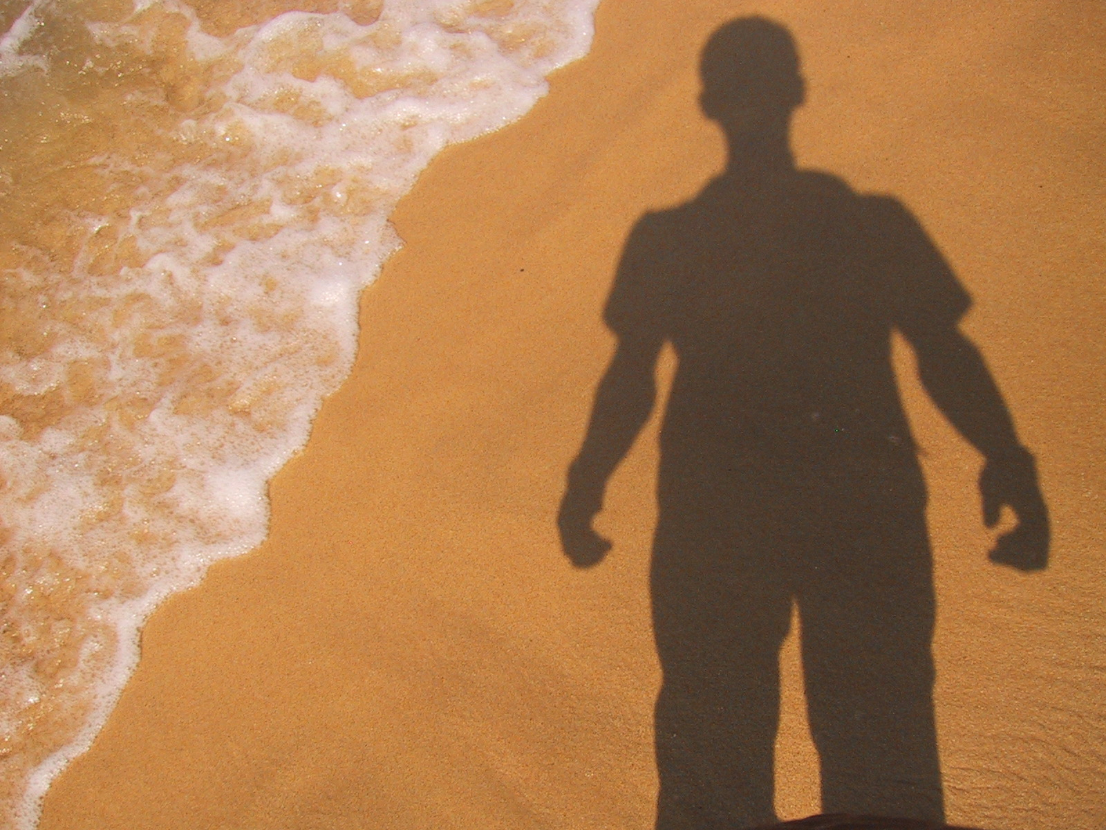 Photographer's shadow on orange sand near sea foam in Vietnam